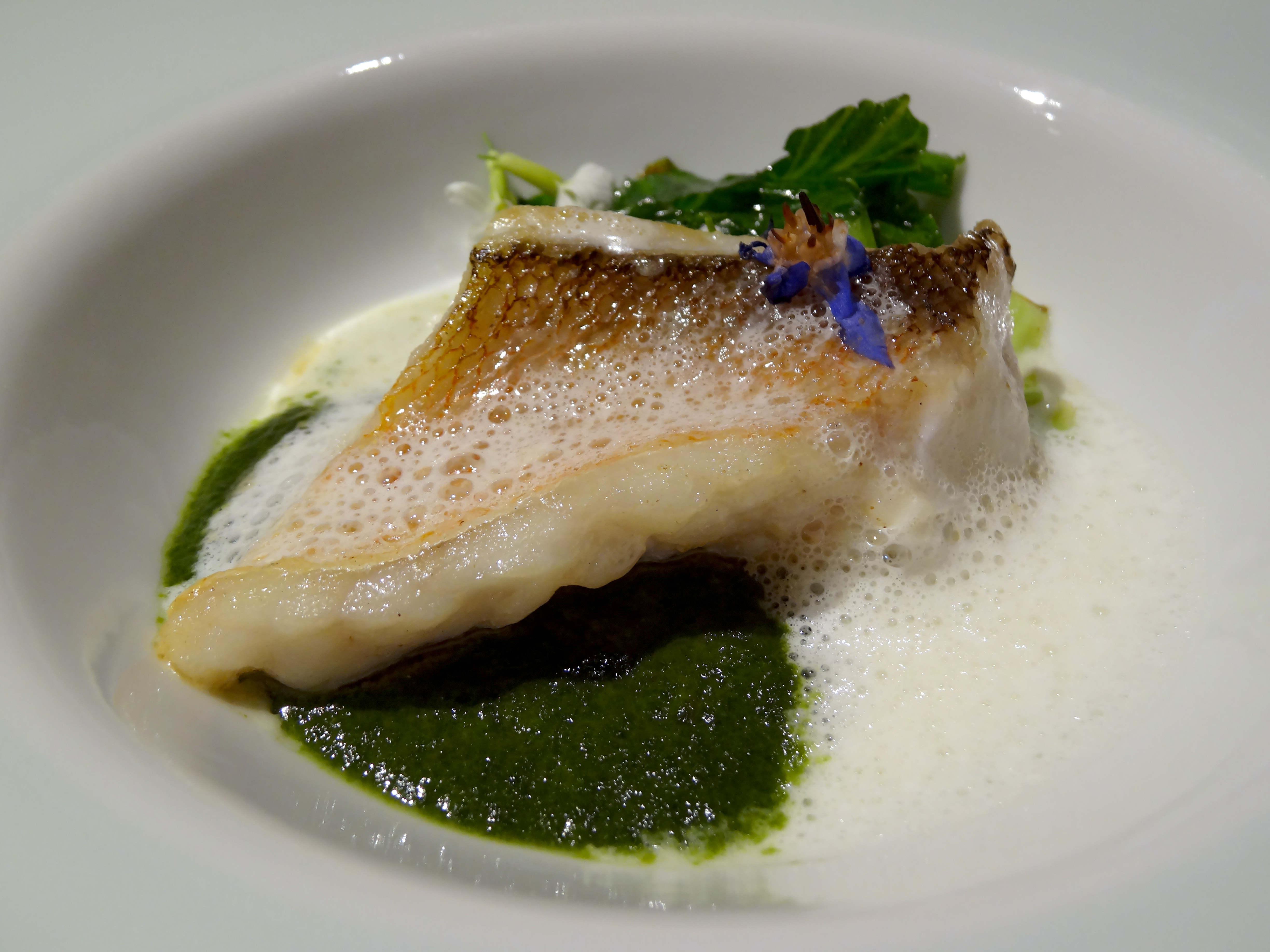 Nishimuraya Hotel Shogetsutei in Kinosaki Onsen town, Toyooka, Hyogo prefecture, Japan.